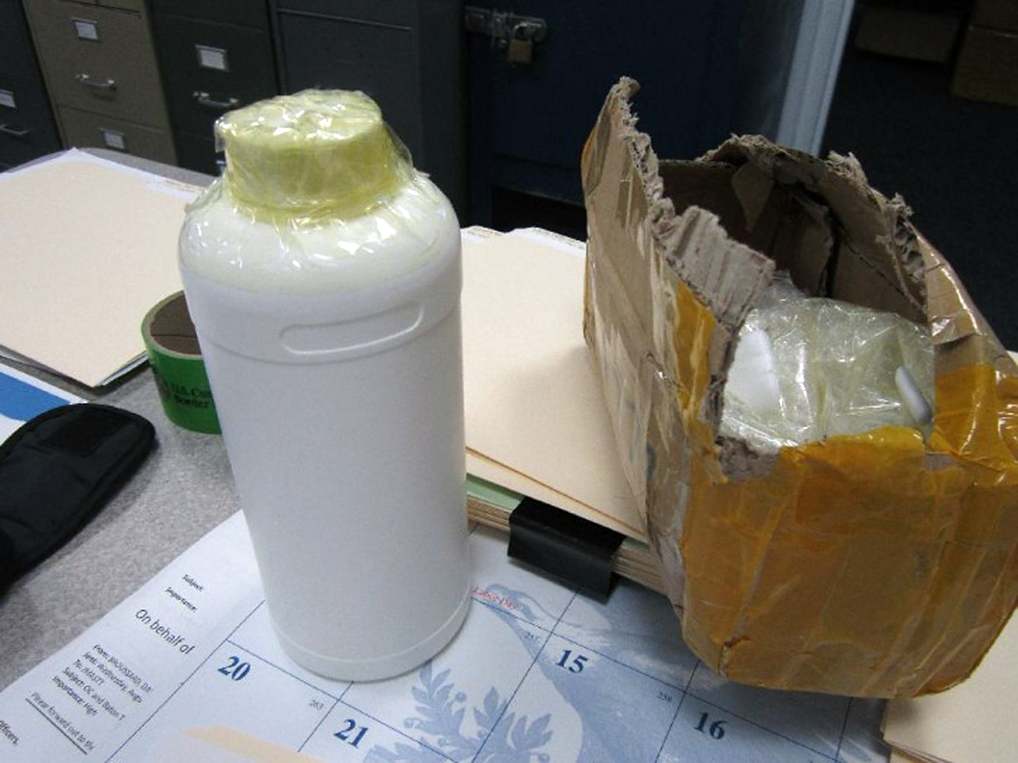 101015: JACKSONVILLE, Fla. – U.S. Customs and Border Protection (CBP) Office of Field Operations (OFO) officers working in Jacksonville, Florida seized a package of gamma-butyrolactone (GBL) arriving from Hong Kong. The total weight of the seized drug was 1.35 kilograms, which is equivalent to nearly three pounds. Photo provided by: U.S. Customs and Border Protection